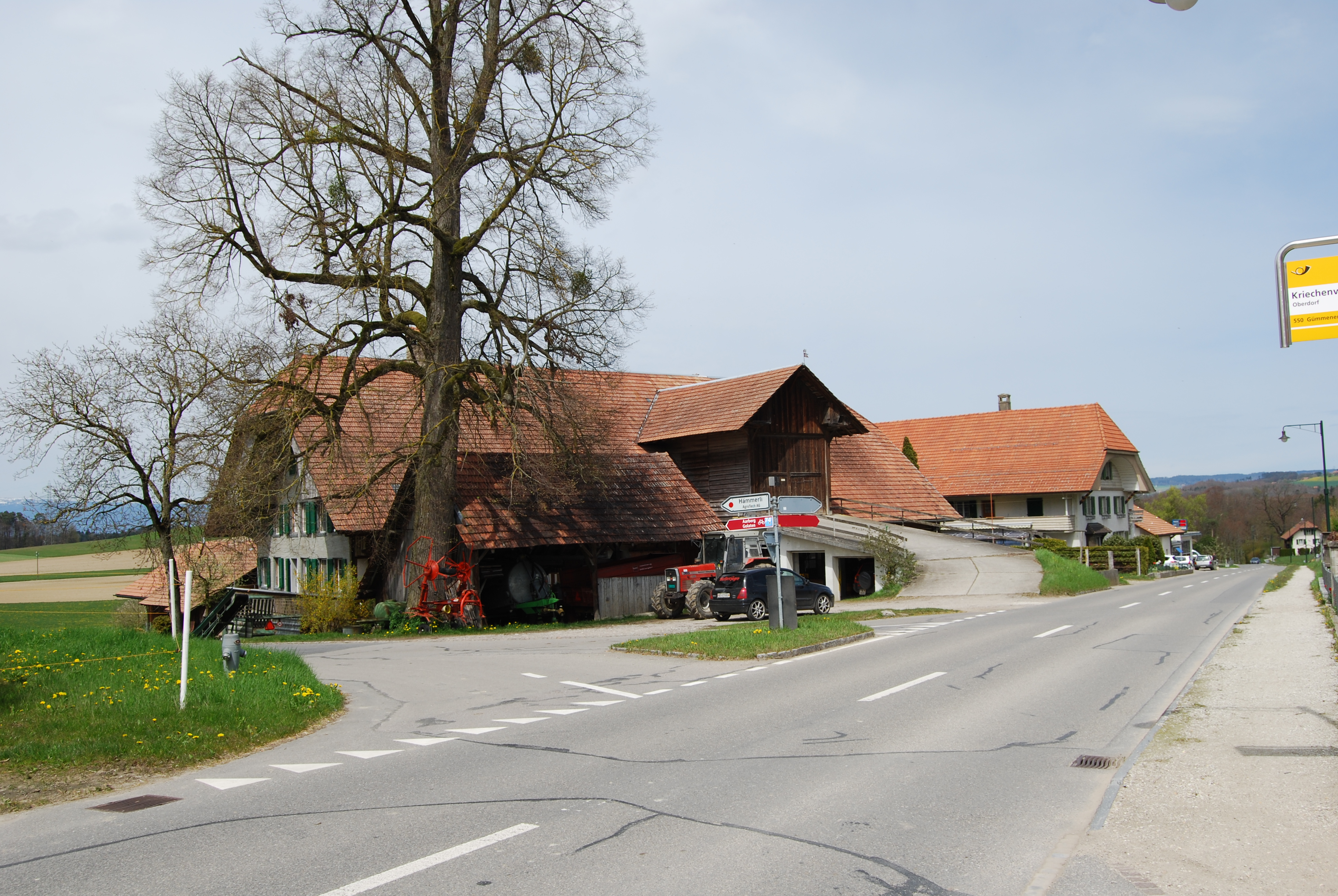 Kriechenwil, canton of Bern, SwitzerlandEsperanto: Kriechenwil, Kantono Berno, Svislando